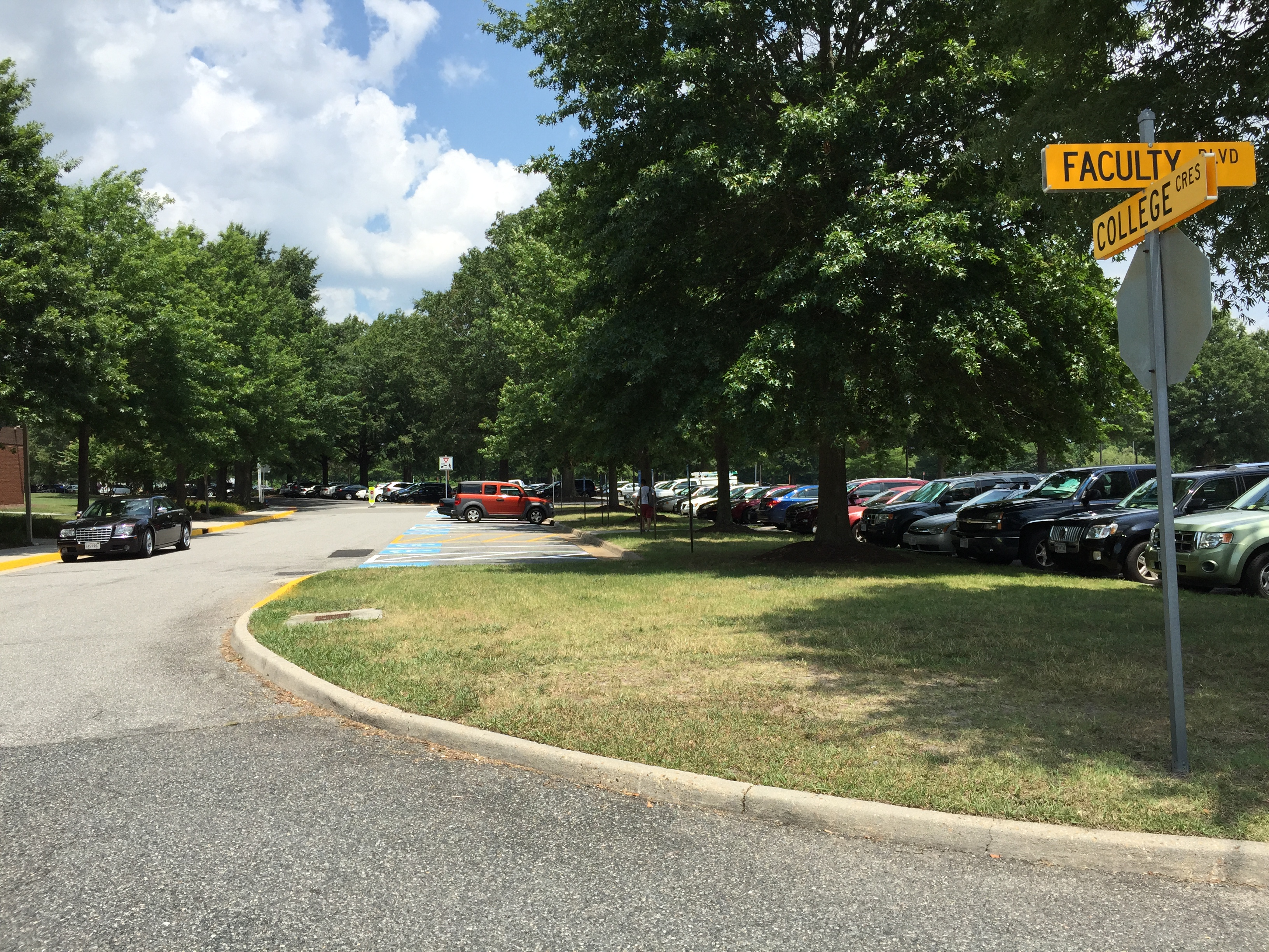 View west along Virginia State Route 350 (College Crescent) at Faculty Boulevard on the campus of Tidewater Community College, Virginia Beach Campus in Virginia Beach, Virginia